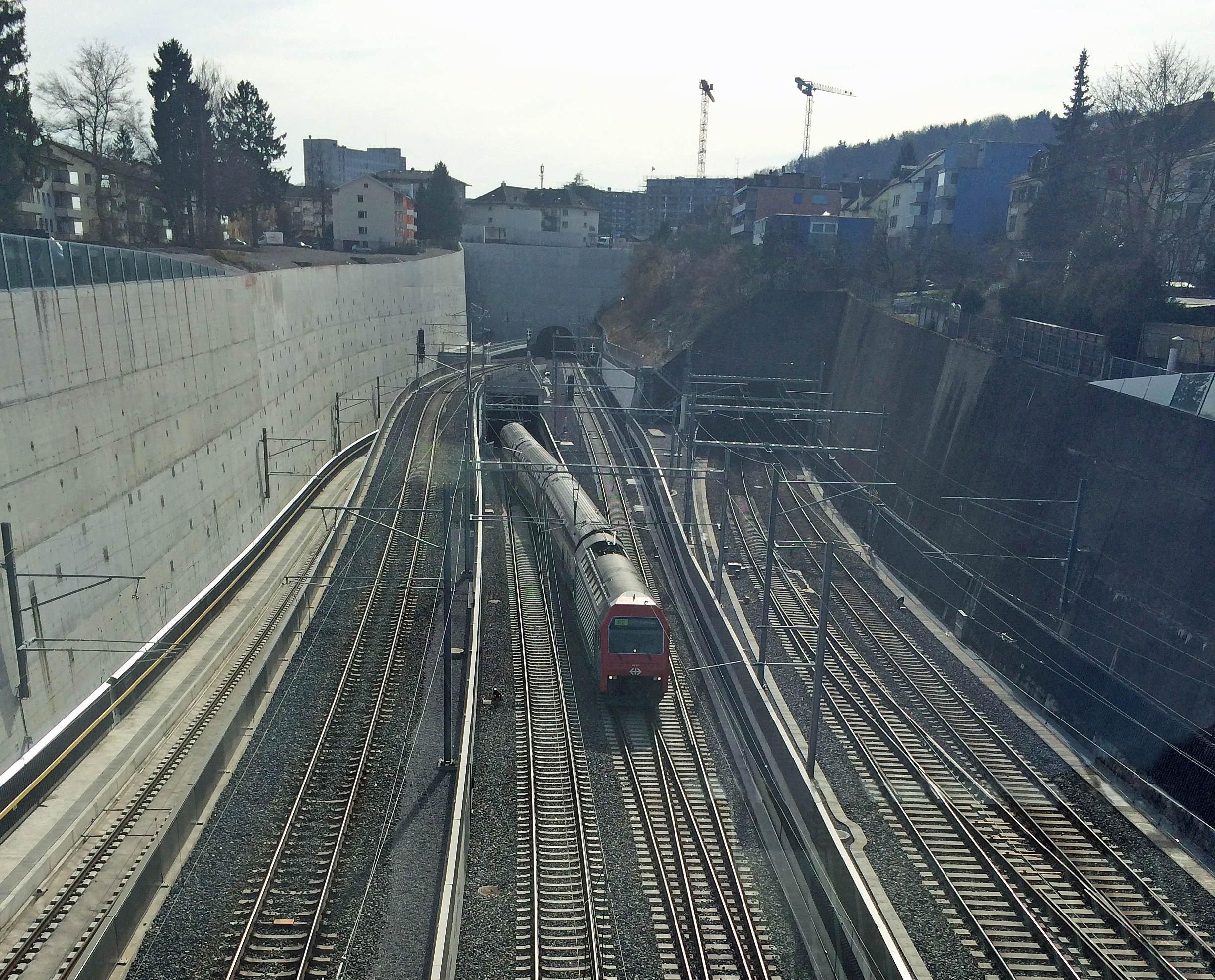 Portals of three railway tunnels in Oerlikon, Zürich, Switzerland – from left: Weinbergtunnel, Wipkingertunnel, Käferbergtunnel – S-Bahn train coming from Zürich Hauptbahnhof leaving Weinbergtunnel.